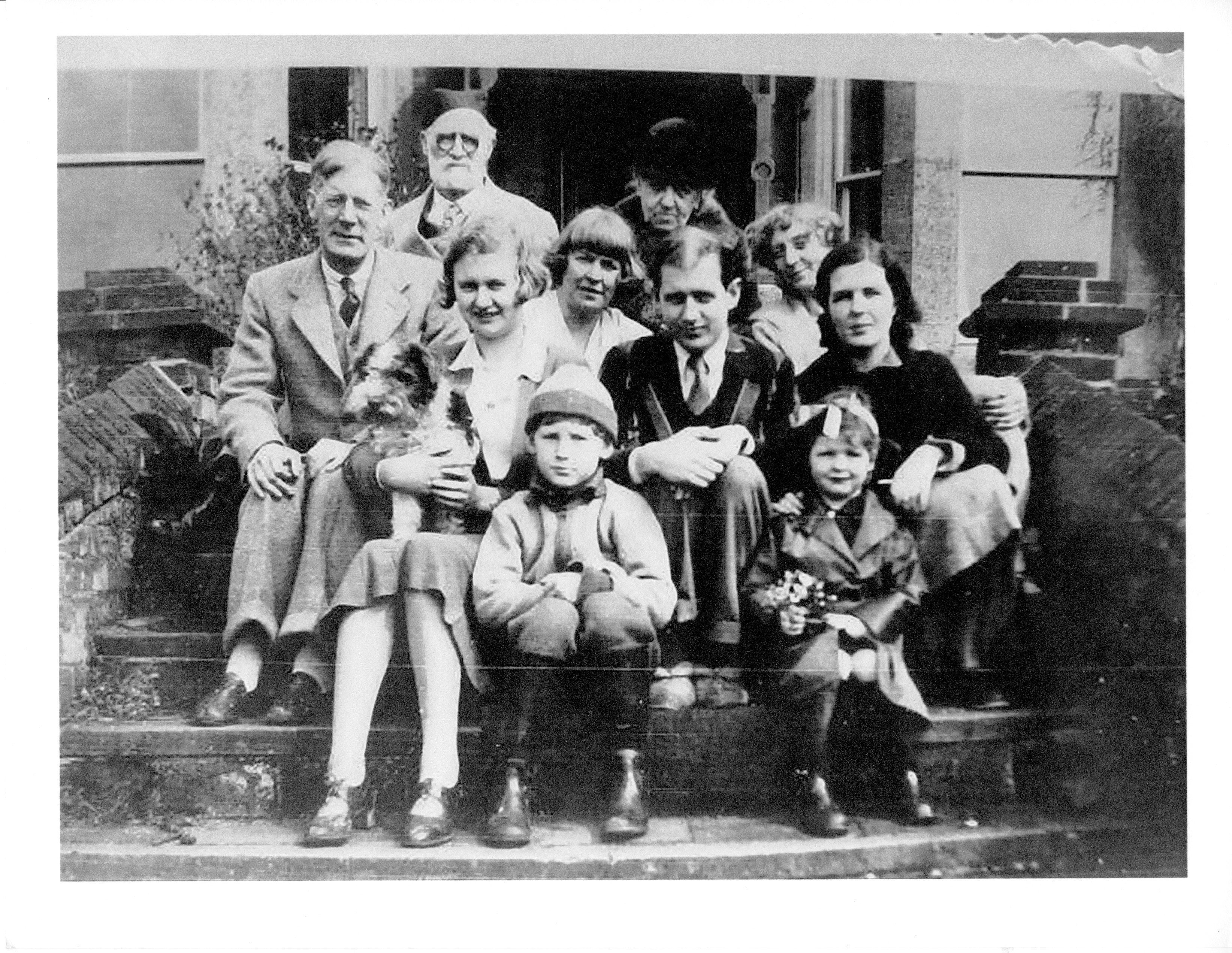 Back Row: Charles S. Meacham (chemist, brewer, painter), Florence Meacham (painter) Second Row: Battiscombe Gunn, son in law (Egyptologist), Wendy Wood, daughter (Scottish nationalist), Meena Gunn, daughter (Freudian psychoanalyst) Third Row: Mary Barnish, grand-daughter, with Meena's dog, Spike Hughes, grandson (Musician, critic), Bobbie Hughes grand-daughter-in-law Fourth (front) Row: Ian Gunn, grandson (Physicist), Angela Hughes, great grand-daughter. UK Photograph created by unknown author before 1 June 1957, therefore PD